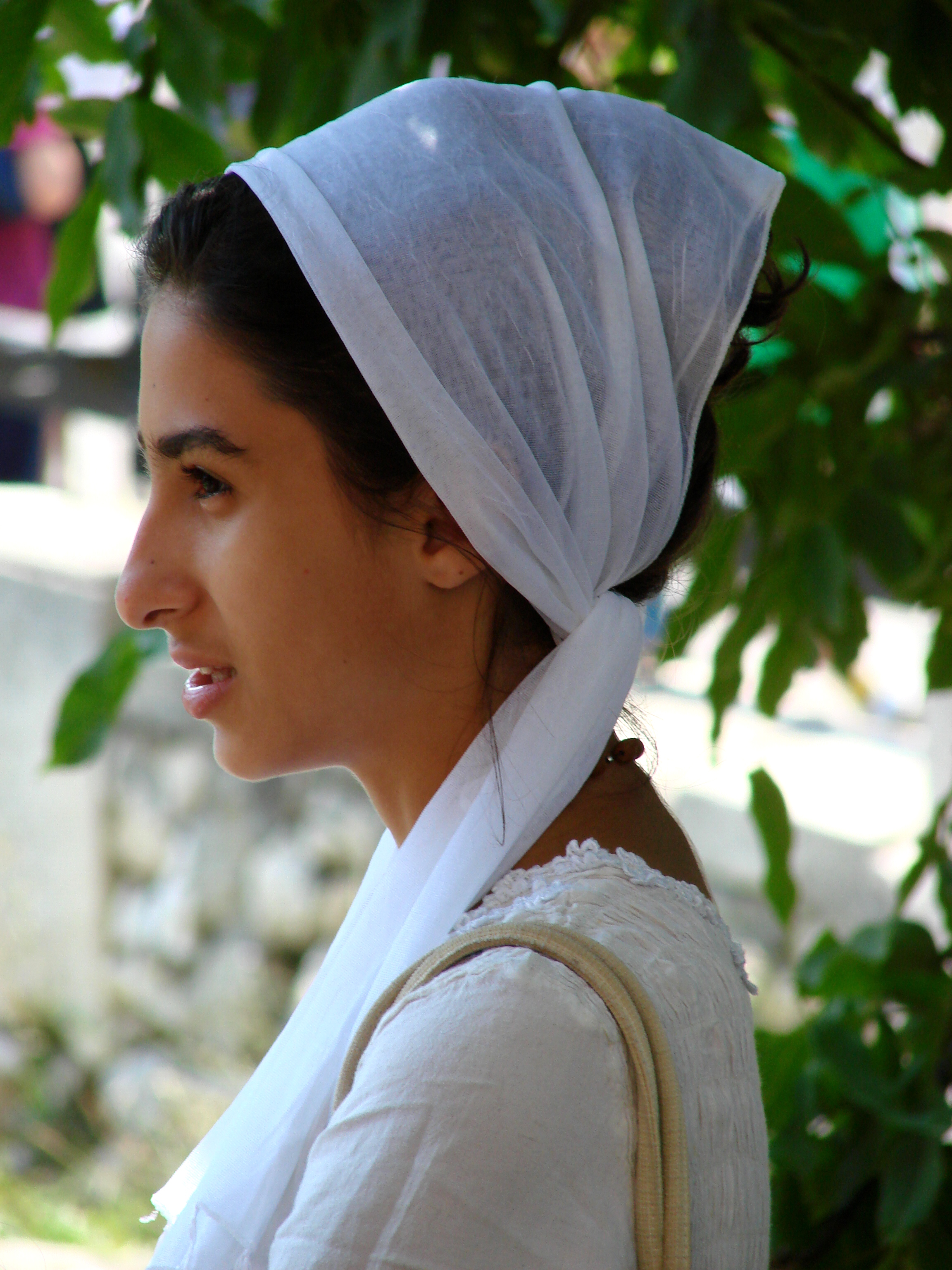 Young woman in traditional dress at a religious ceremony, Constanta, Romania. June 2007.